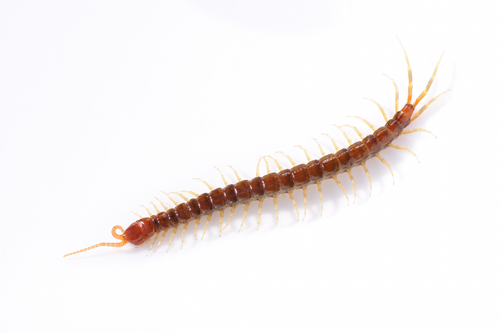 Scolopocryptops sp.